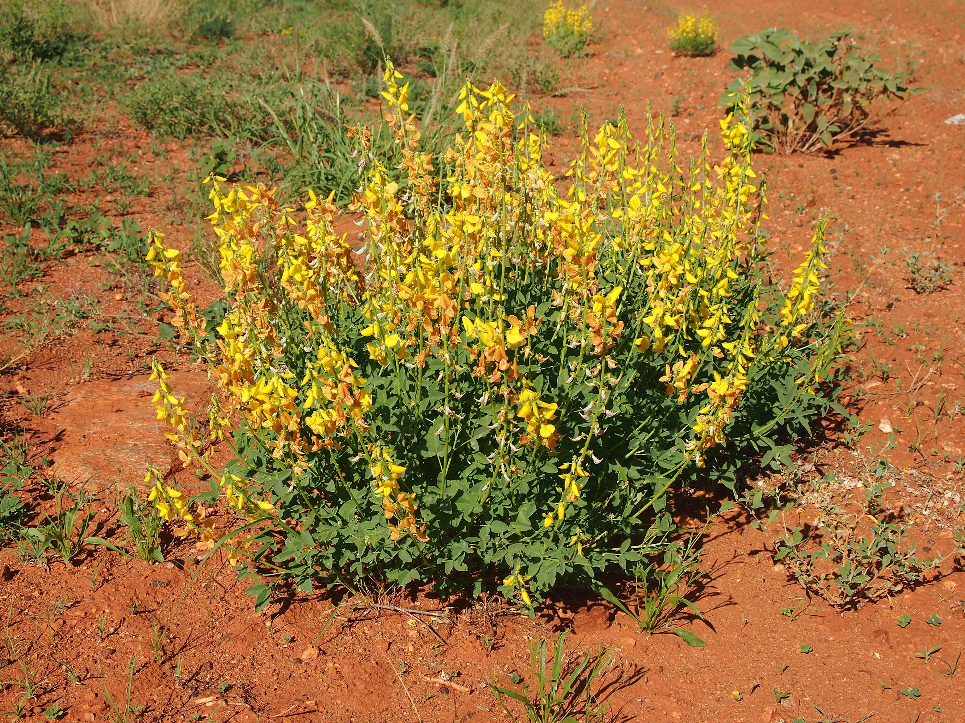 Crotalaria dissitiflora subsp. dissitiflora